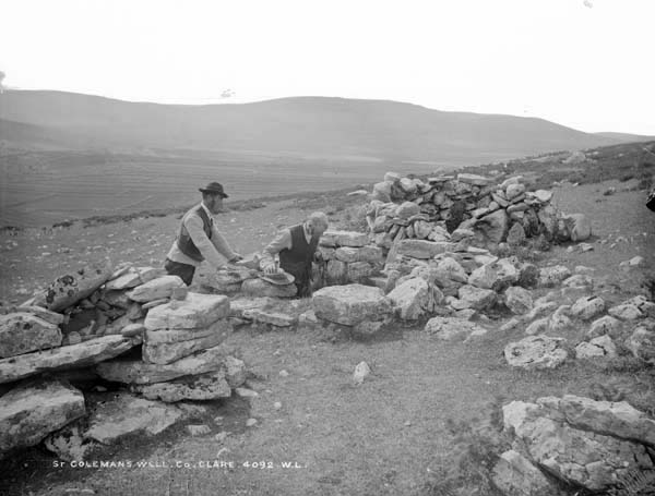 Photograph taken between ca. 1880 and 1900. Format: glass negative Part of: National Library of Ireland Lawrence Collection. For more photographs in this collection see National Library of Ireland catalogue: Reference number: L_ROY_04092